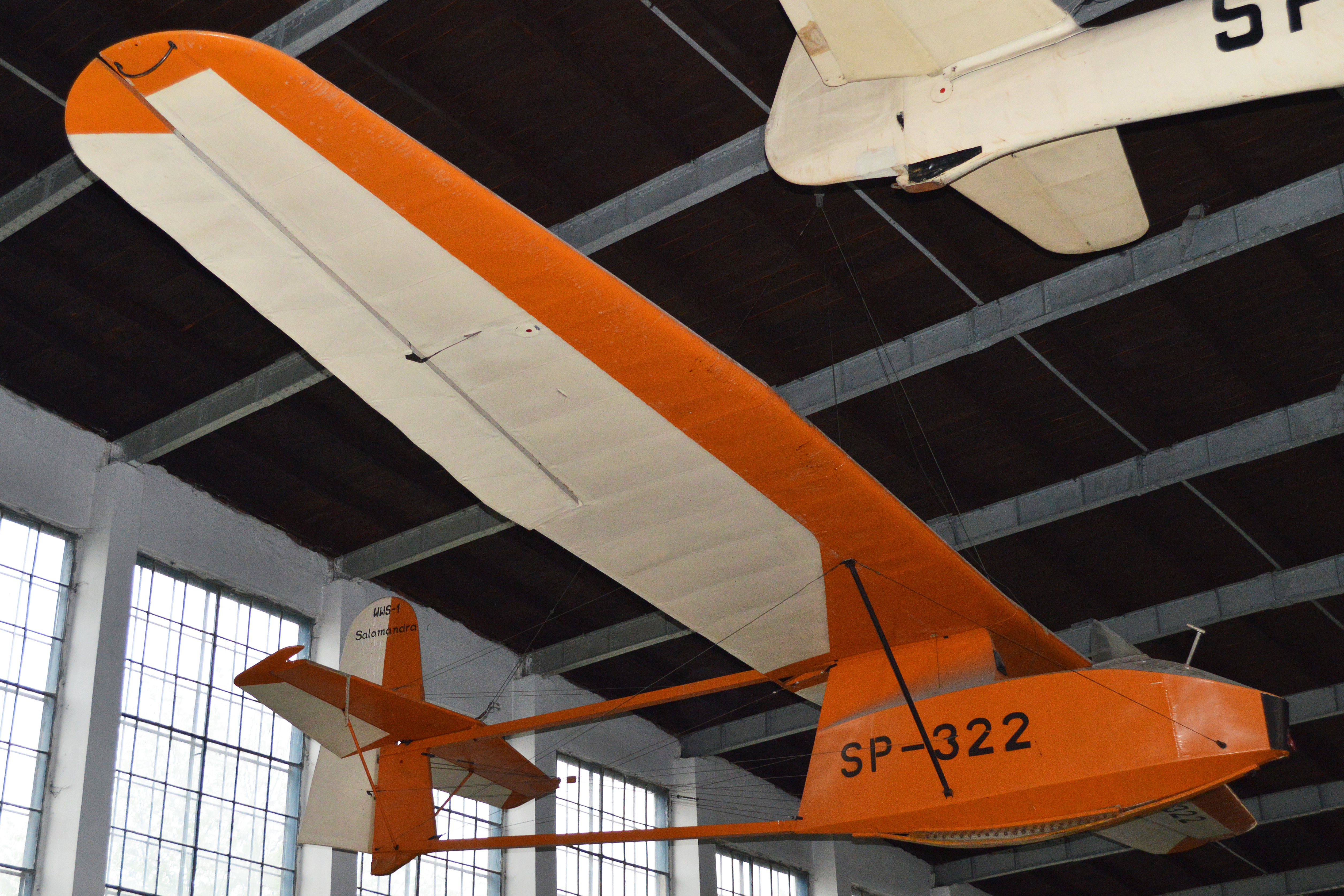 c/n 003. On display suspended in the main display hangar at the Muzeum Lotnictwa Polskiego Krakow, Poland. 23-08-2013.